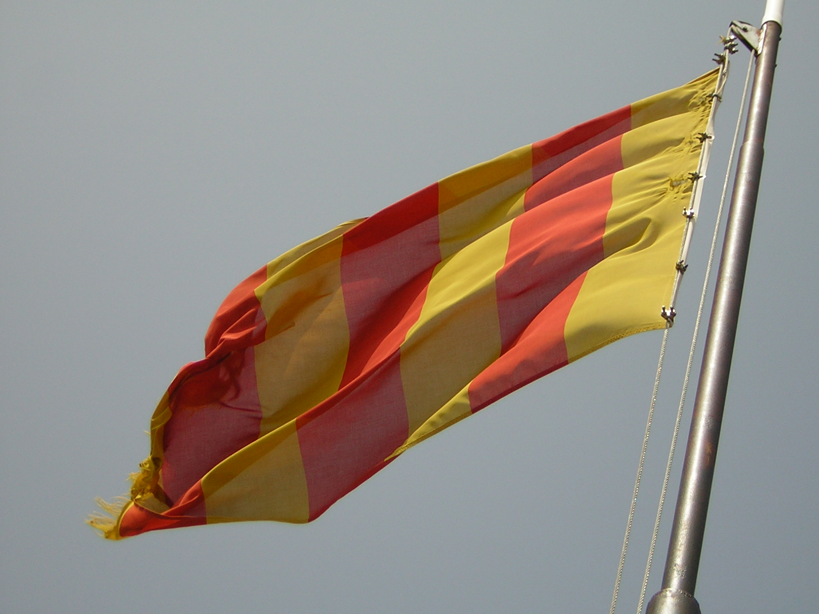 Flag of Foix Bandera de Foix